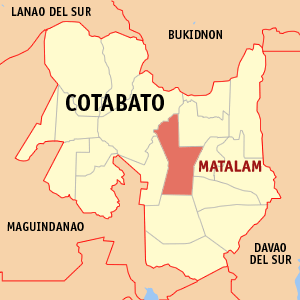 Map of the Cotabato showing the location of Matalam